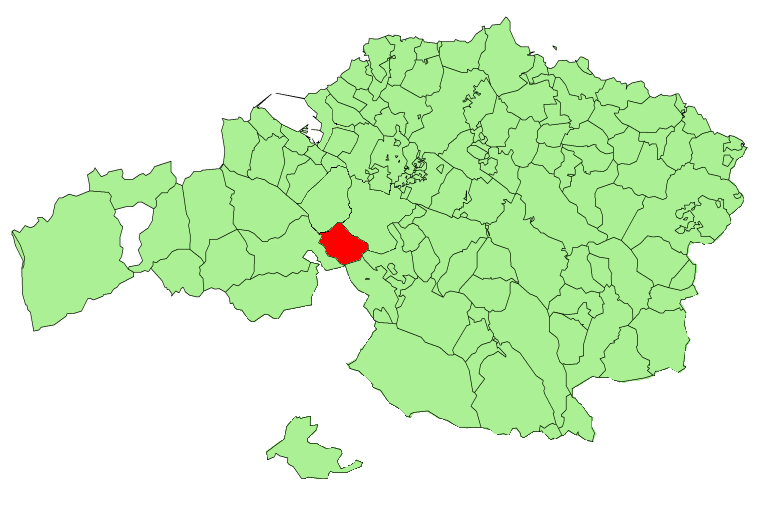 Map of Alonsotegi